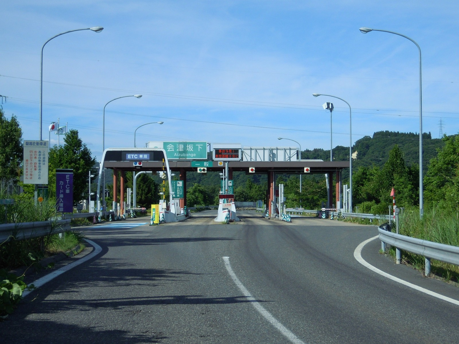 This Interchange, Aizubange Interchange, is on Ban'etsu Expressway, in Aizubange Town, Fukushima Prefecture, Japan.